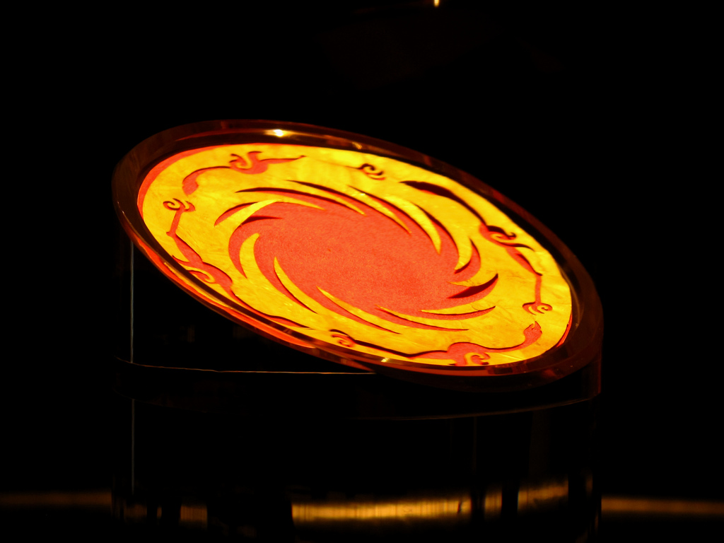 Jinsha sunbird golden foil